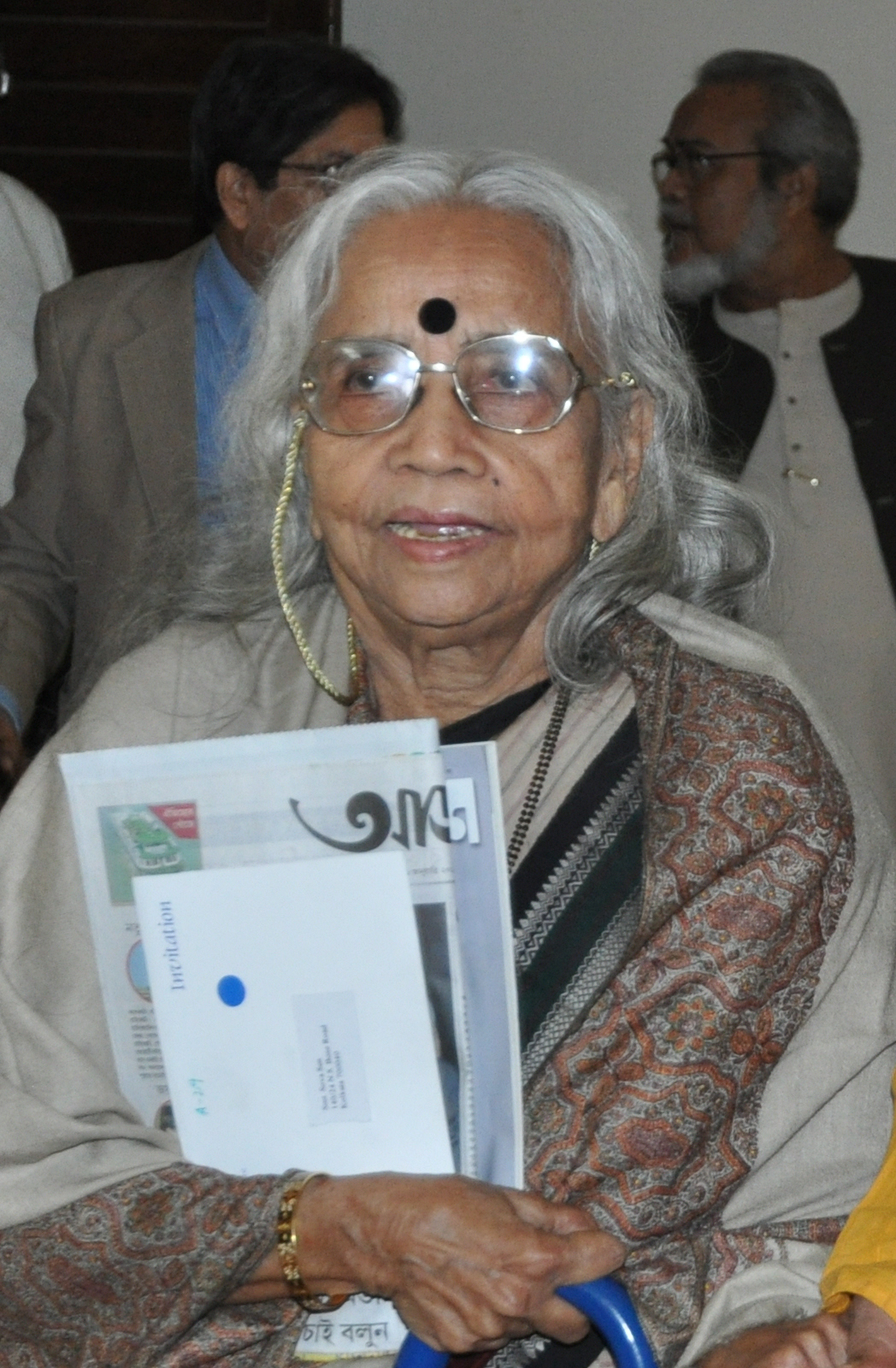 Shobha Sen is renowned stage and film actress, she graduated from Bethune College in 1943. In 1944, she joined Gananatya Sangstha and acted in the lead female role of ‘Nabanna’. In 1953 -54 she joined the Little Theatre Group which later became Peoples’ theatre Group. Since then she has acted in many productions of the group, chief among them are: ‘Barricade’, ‘Tiner Taloyar’, ‘Titumir’. She has also acted in films. Very recently she produced ‘Nati’ which depicts the history of the participation of female actresses in Bengali theatre. In the field of stage acting in India, She was wife of Utpal Dutt and the couple had one daughter.